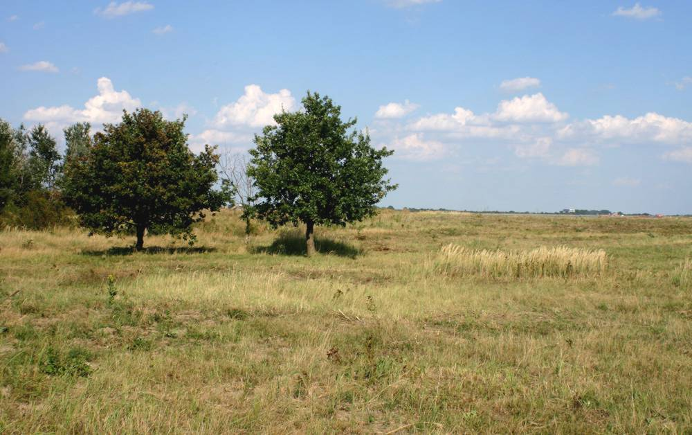 Surface of island,Author: Štefan Benko.